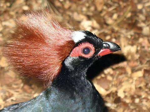 Crested Wood Partridge in Prospect Park Zoo.